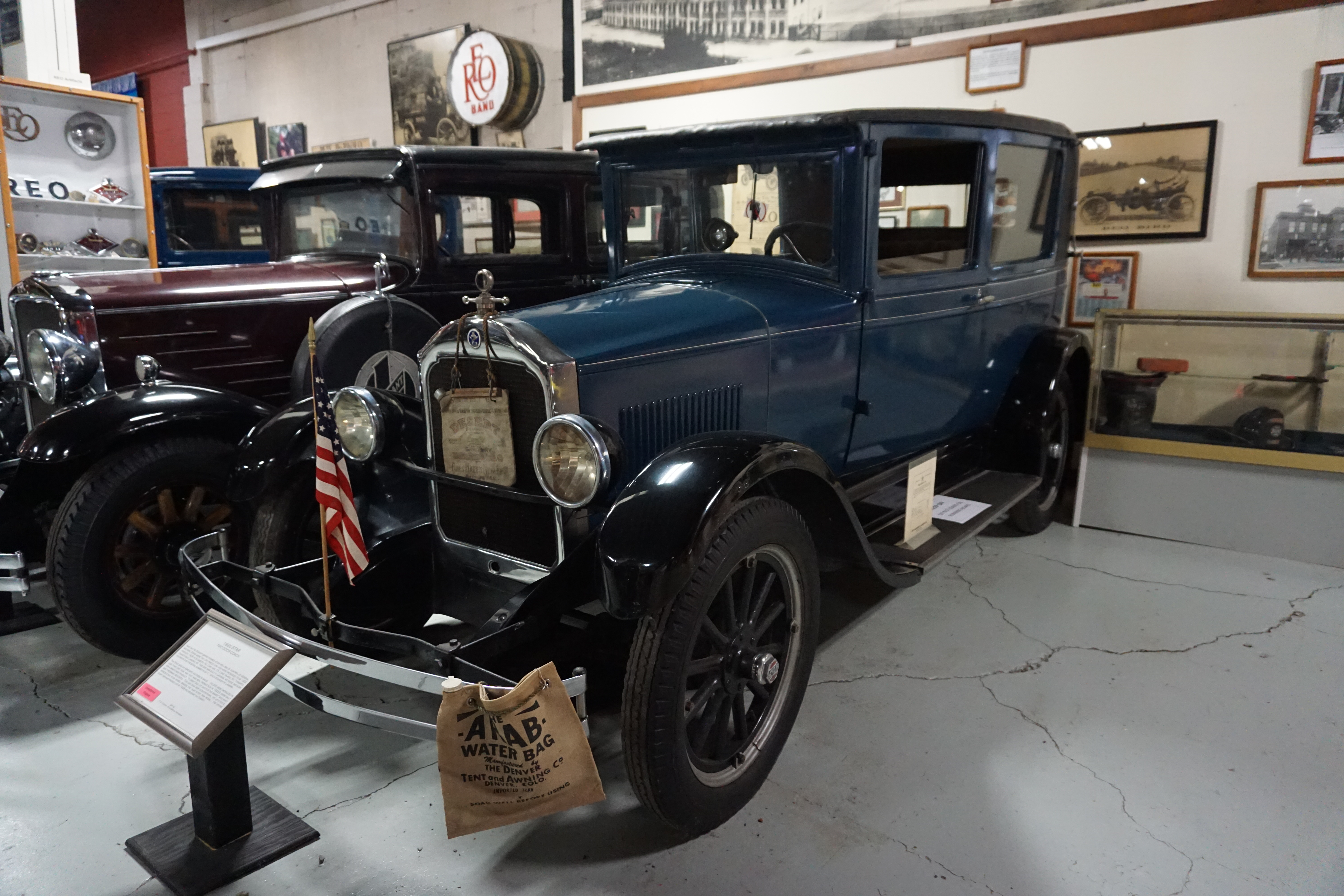 A 1926 Star two-door coach at the R. E. Olds Transportation Museum in Lansing, Michigan (United States).